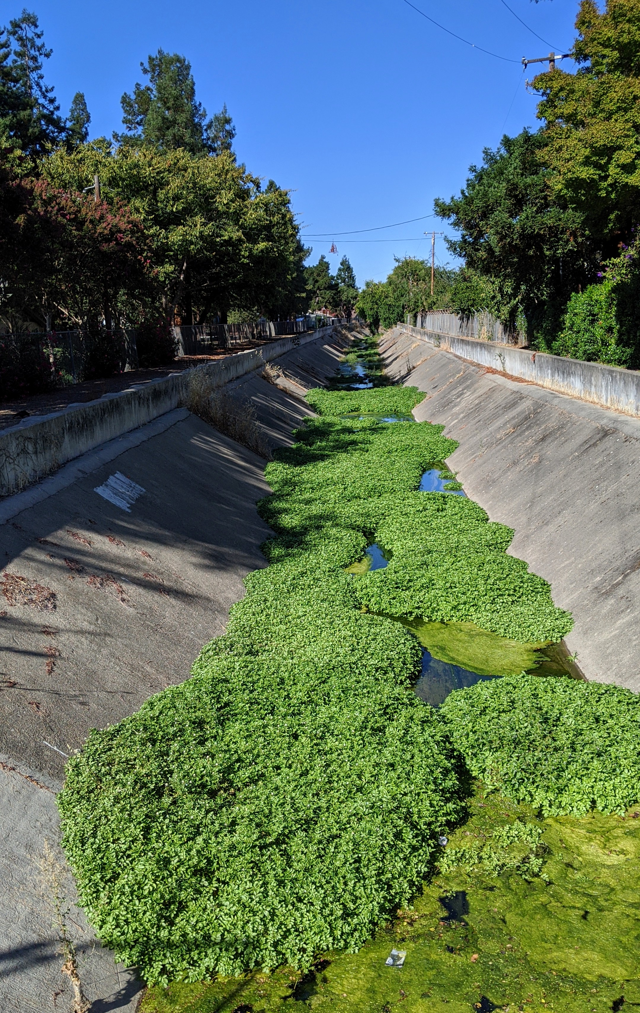 Barrow Creek looking downstream (northeast) from Cowper Street, Palo Alto